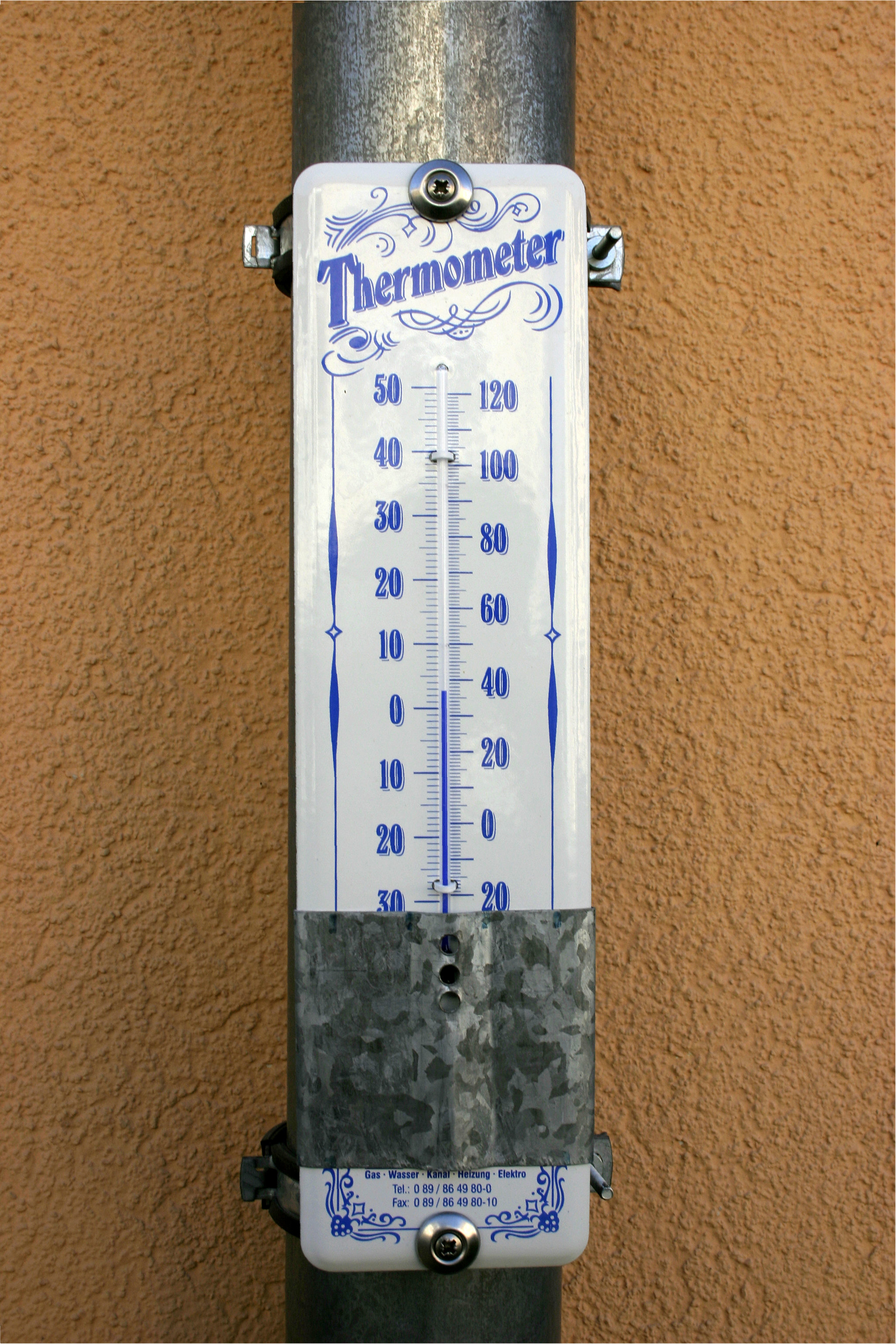 Thermometer